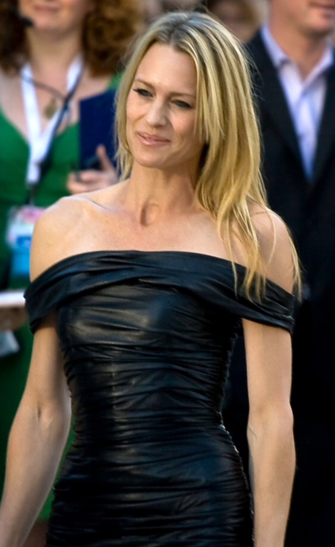 At the premiere of "The Private Lives of Pippa Lee", directed by Rebecca Miller, during the Toronto International Film Festival, 2009.